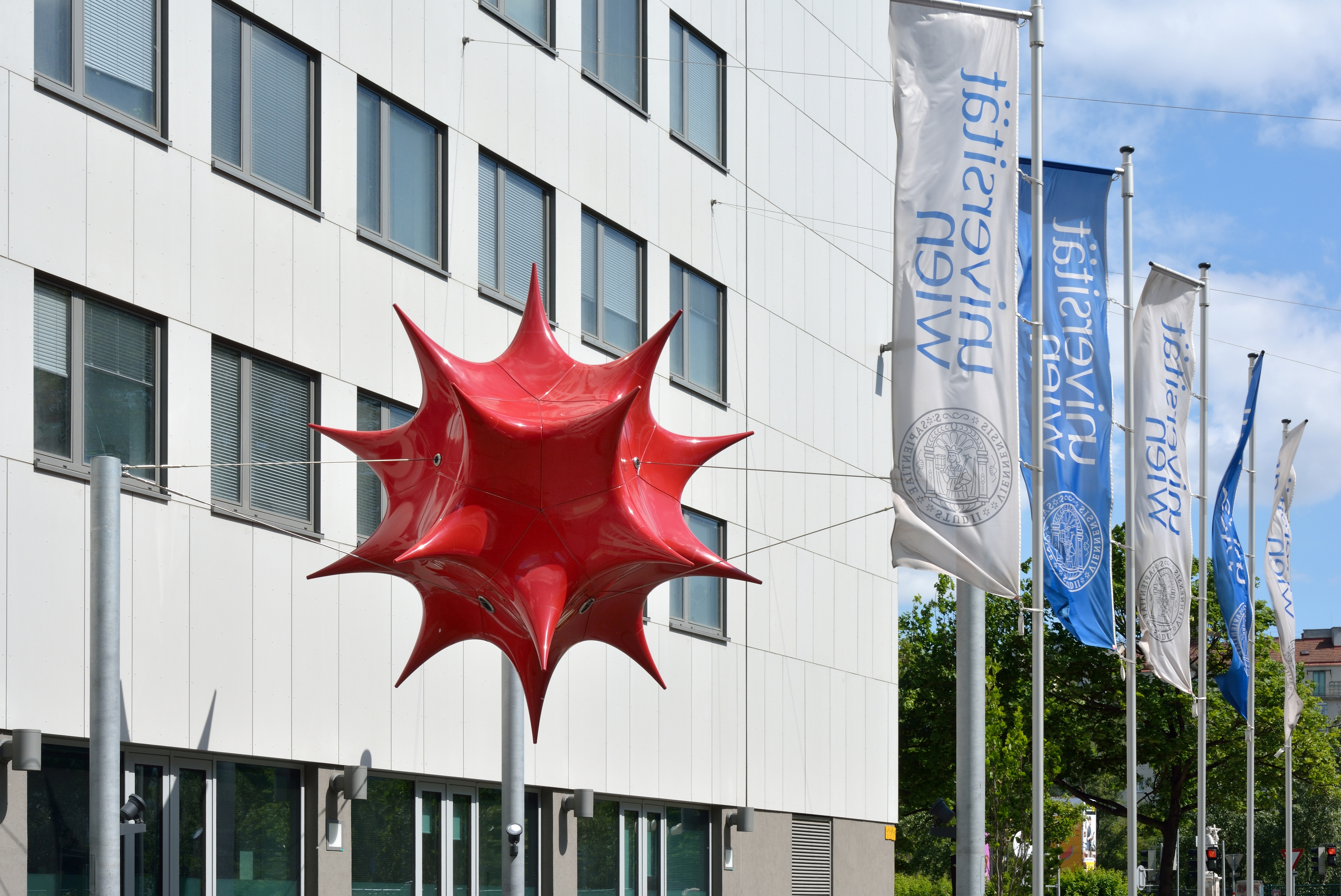 The Dodekaederstern, a sculpture by Herwig Hauser, Faculty of Mathematics, University of Vienna, Oskar-Morgenstern-Platz 1, 9th district of Vienna